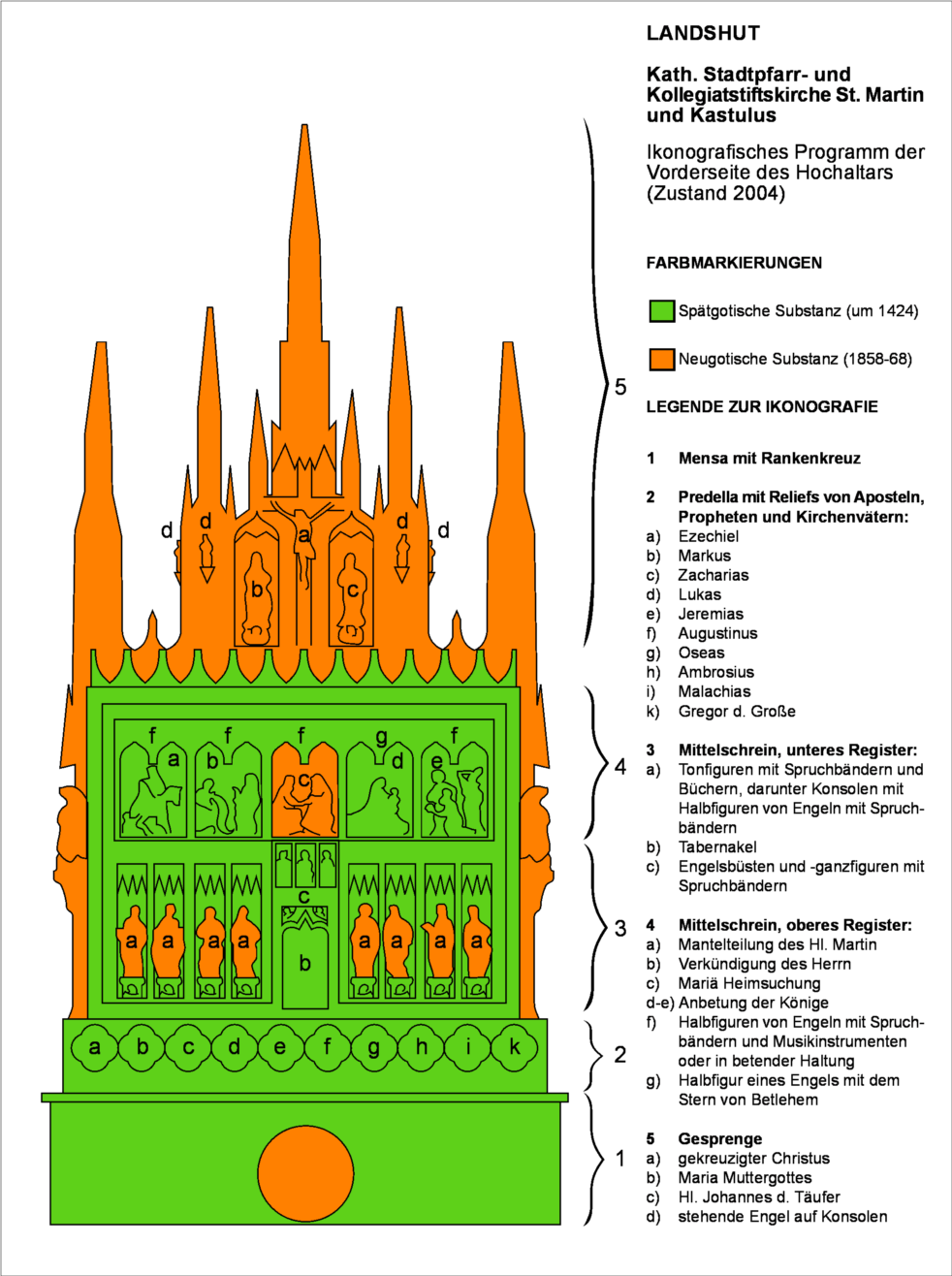 Landshut, Church of St Martin and Castulus. Iconographic programme of the front side of the main altar (German language version).